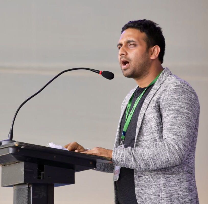 Kunal speaking at the Young Legislators Conference, New Delhi